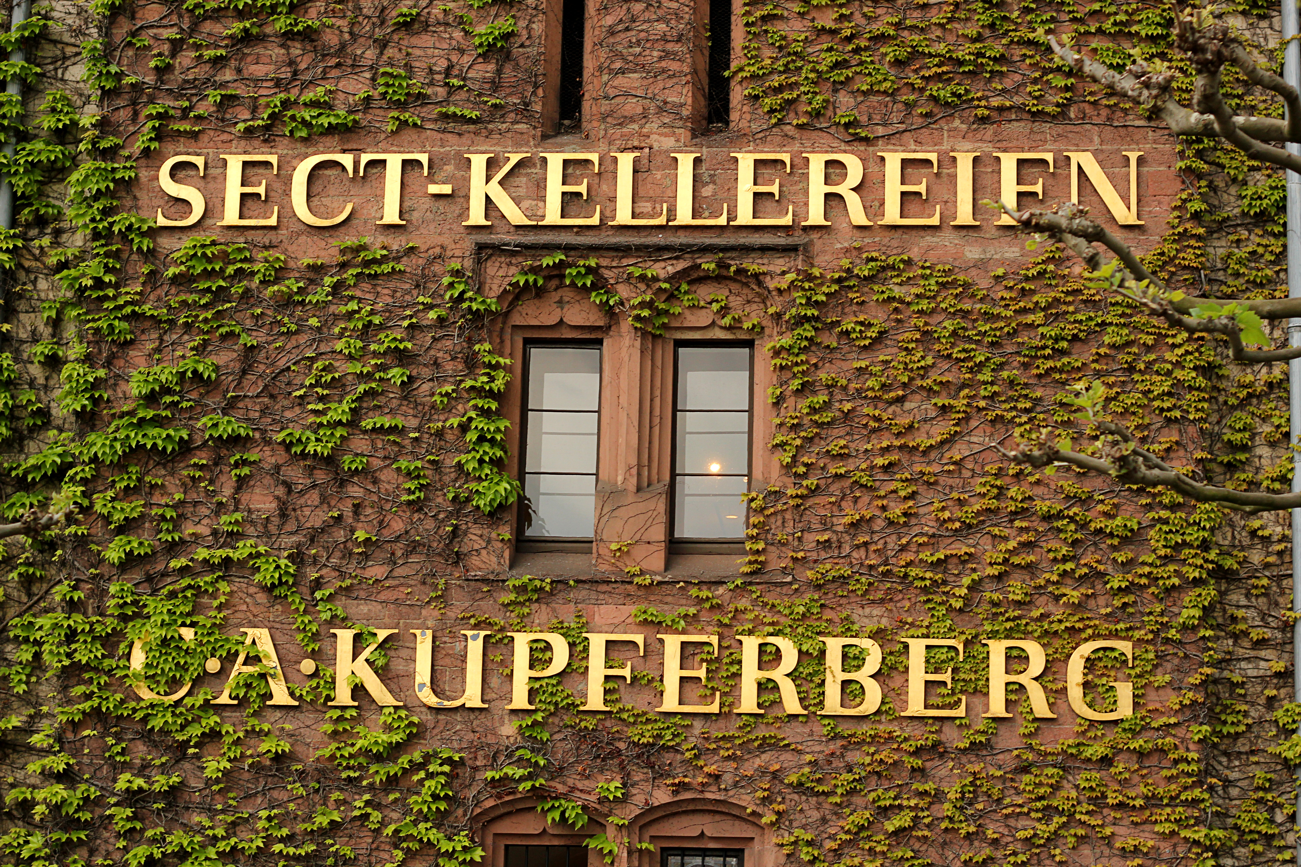 Writing on the building of champagne producer Kupferberg in Mainz, Germany.